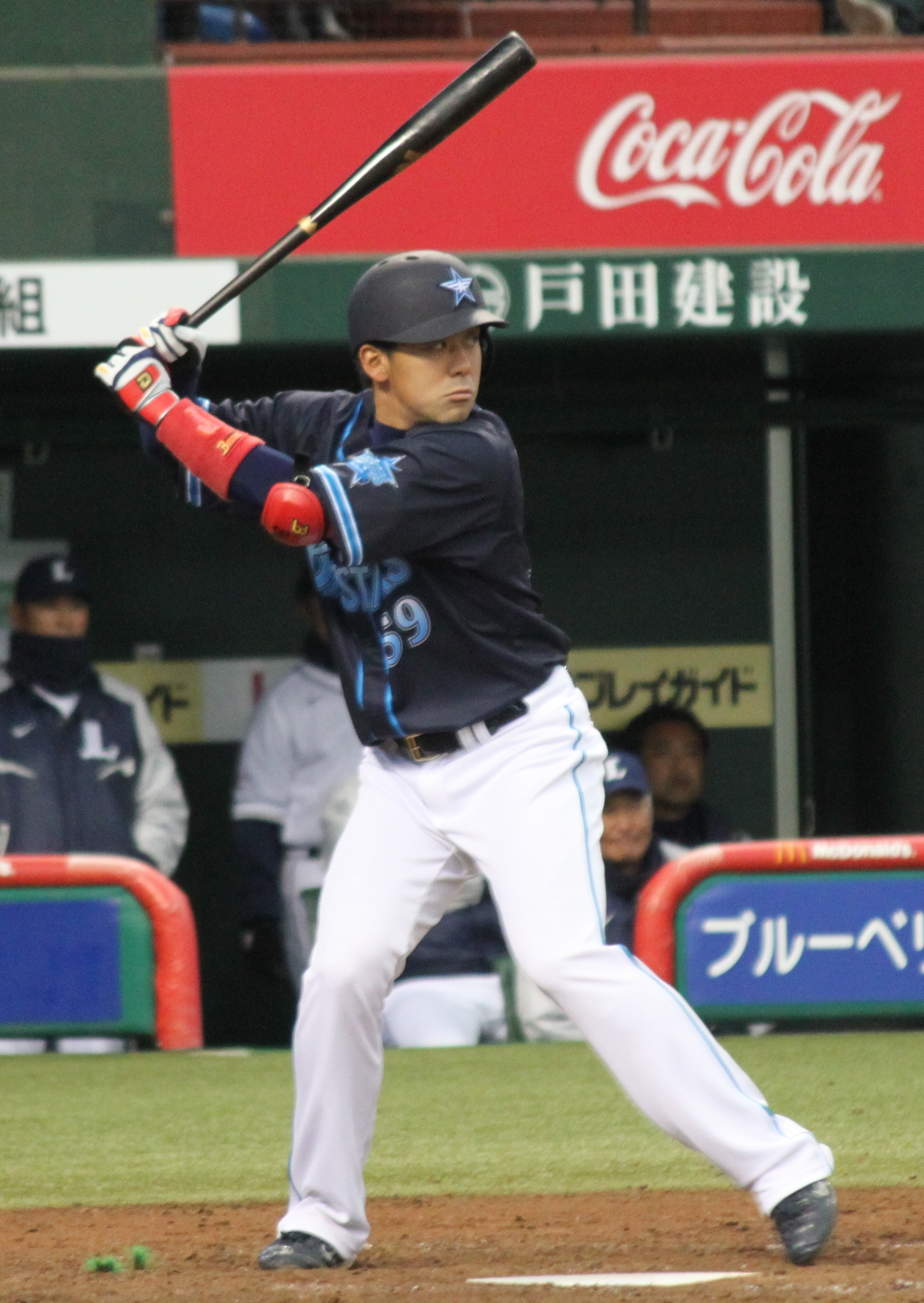 Toshiki Kurobane, catcher of the Yokohama DeNA BayStars, at Seibu Dome.